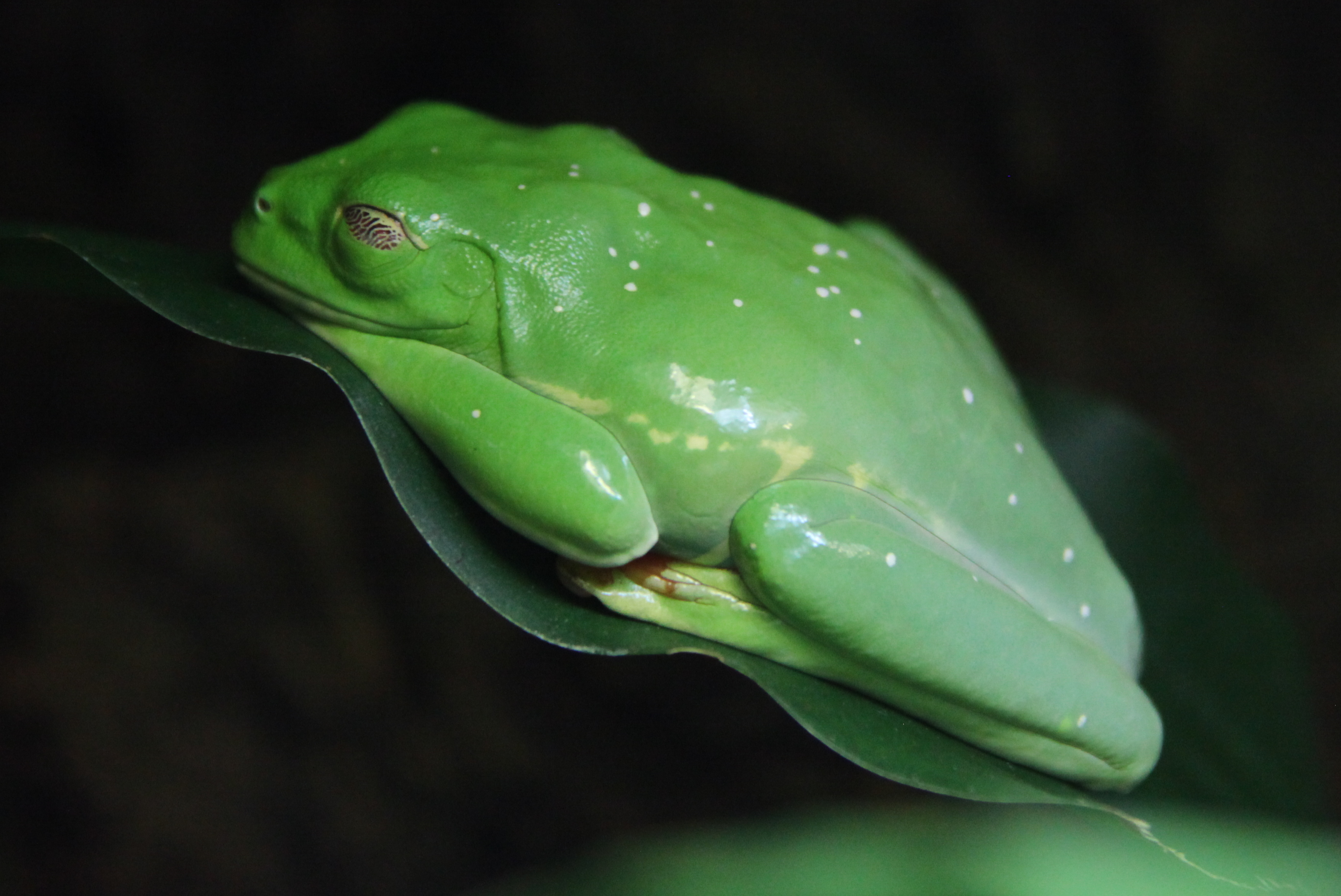 Red-eyed Tree Frog (Agalychnis callidryas), in camouflage mode